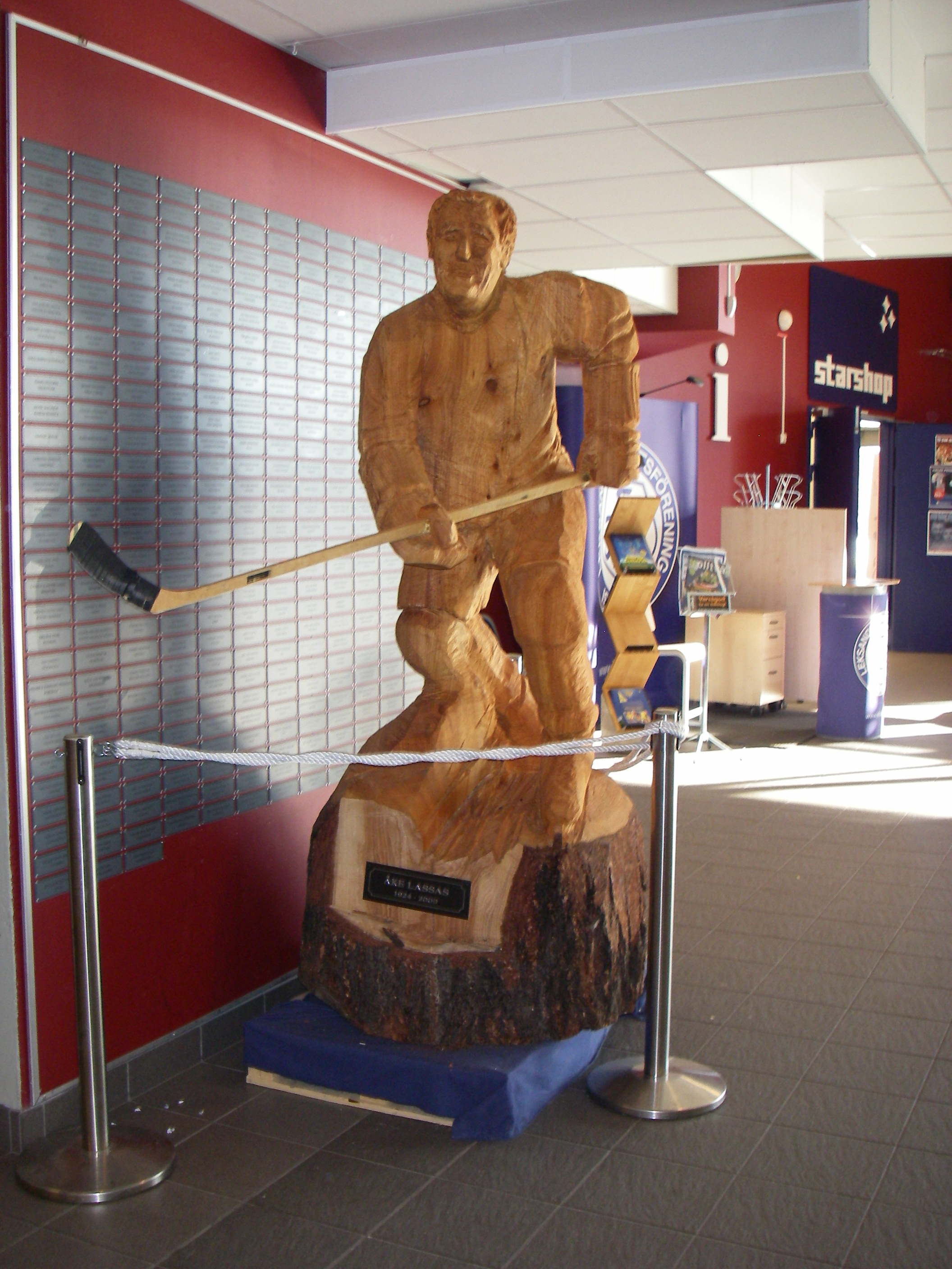 Statue of ice hockey player Åke Lassas. The statue is made using a chain saw by artist Torbjörn Lindgren and is placed in Tegera Arena.